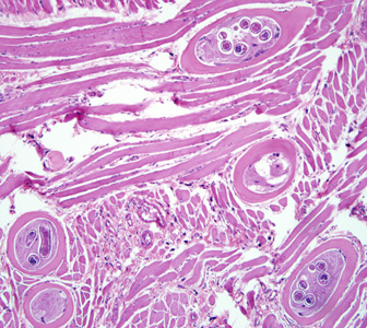 Figure A: Encysted larvae of Trichinella sp. in muscle tissue, stained with hematoxylin and eosin (H&E). The image magnification is 200x. Part Figure A Figure B Figure C Figure D